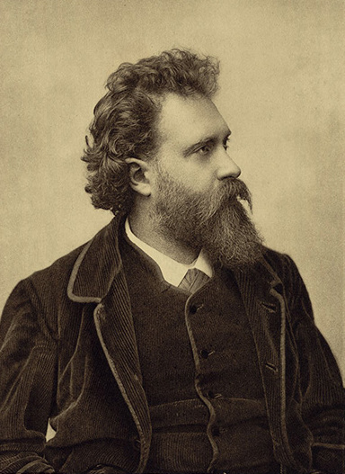 Portrait of Wilhelm Kienzl, composer (1857-1941), before 1898.